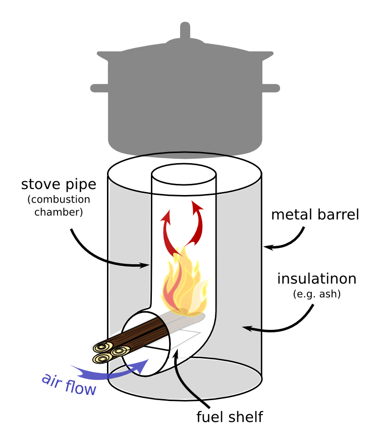 This is a rocket stove. An efficient, clean, DIY stove for cooking outdoors. (I used some svg elements from others.. all public domain..)